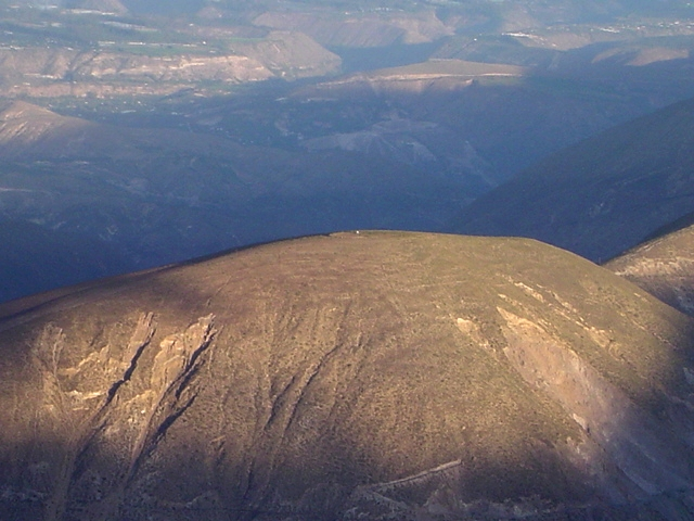 Mount Catequilla, Aerial view. The pre-Hispanic observatory is visible on the summit, marking the position of the Equator.